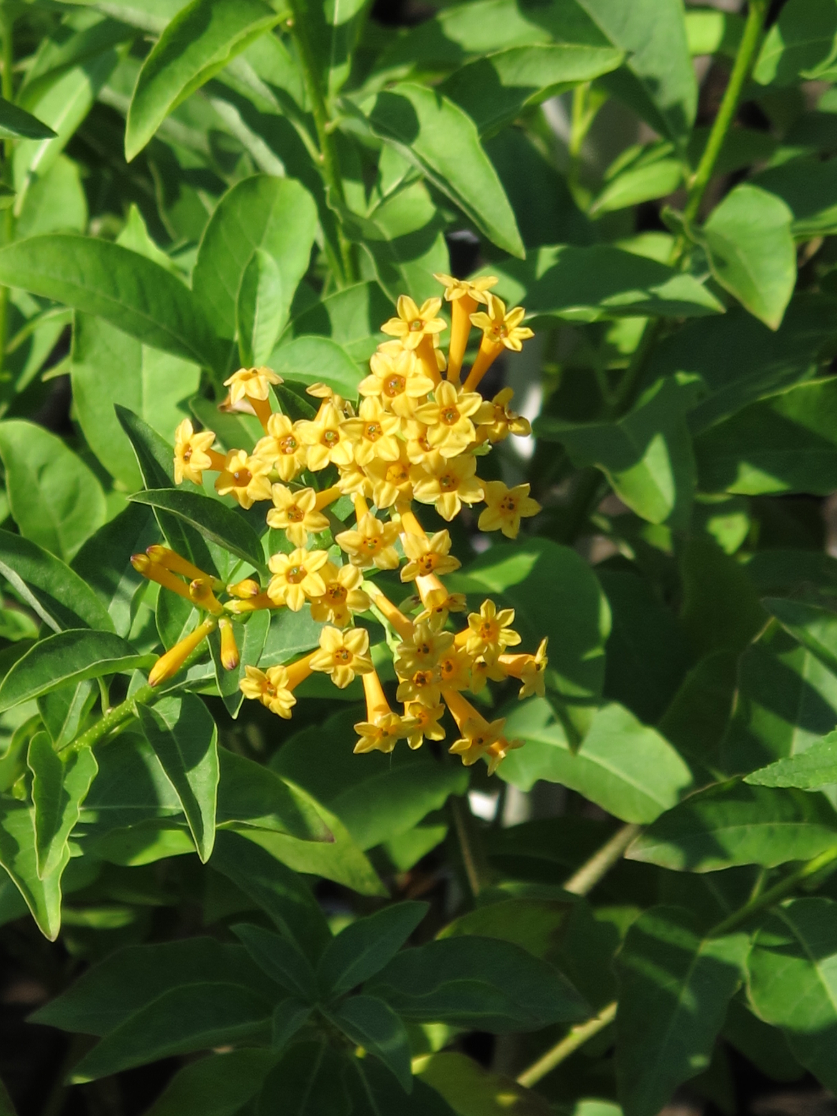 Plant Delights Nursery, Raleigh, North Carolina, USA.